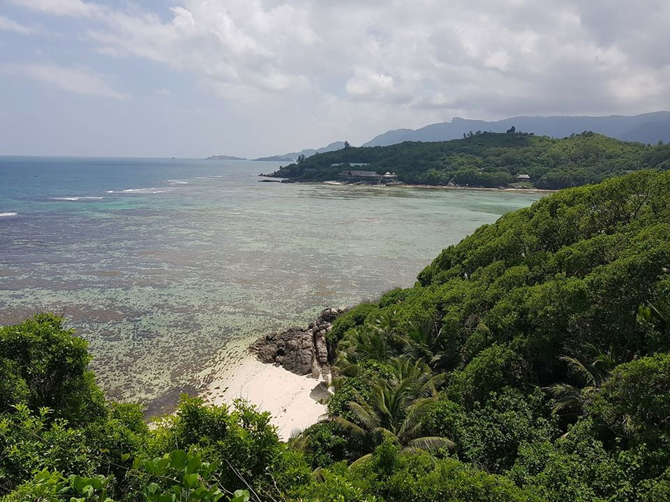 Moyenne Island is a small island off the north coast of Mahé, Seychelles.